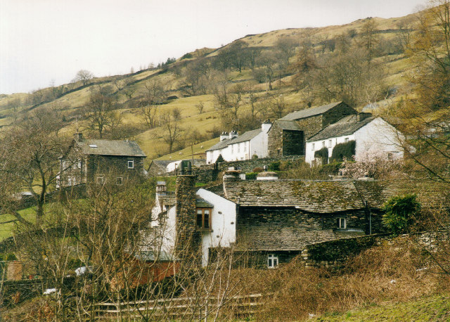 Troutbeck Village. North end of Troutbeck